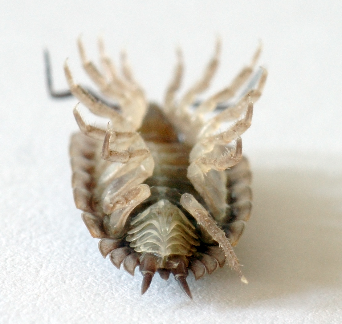 This image shows a 0.4 inch (10 mm) large female Common woodlouse (Oniscus asellus).